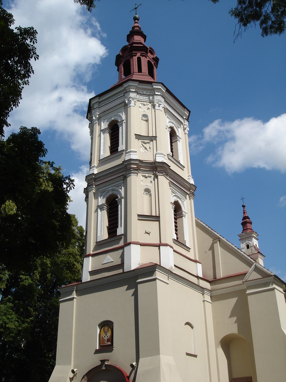 St. Nicholas Church in Szczebrzeszyn